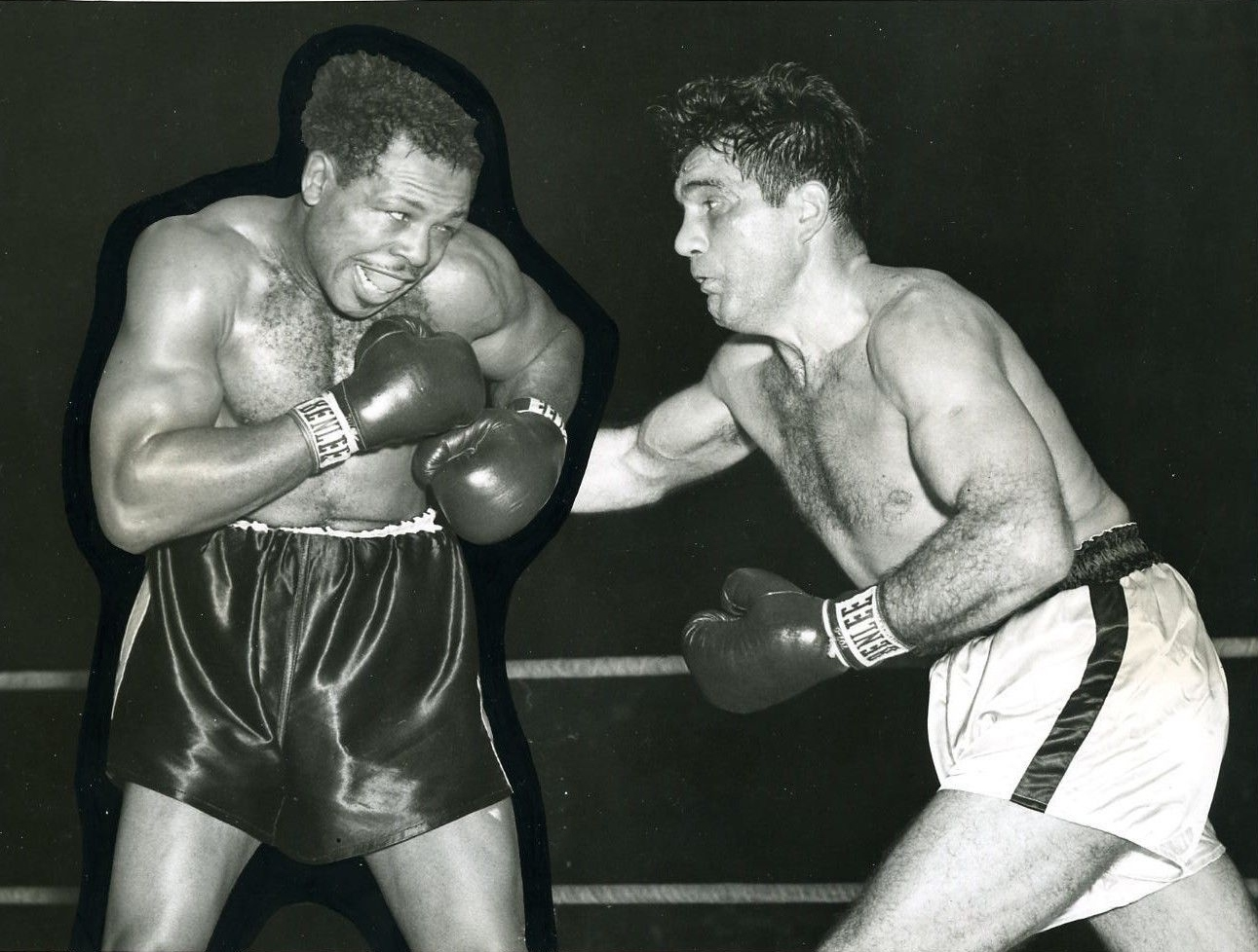 Archie Moore & Joey Maxim 1952 Press Photo Boxing Light Heavyweight Title Fight